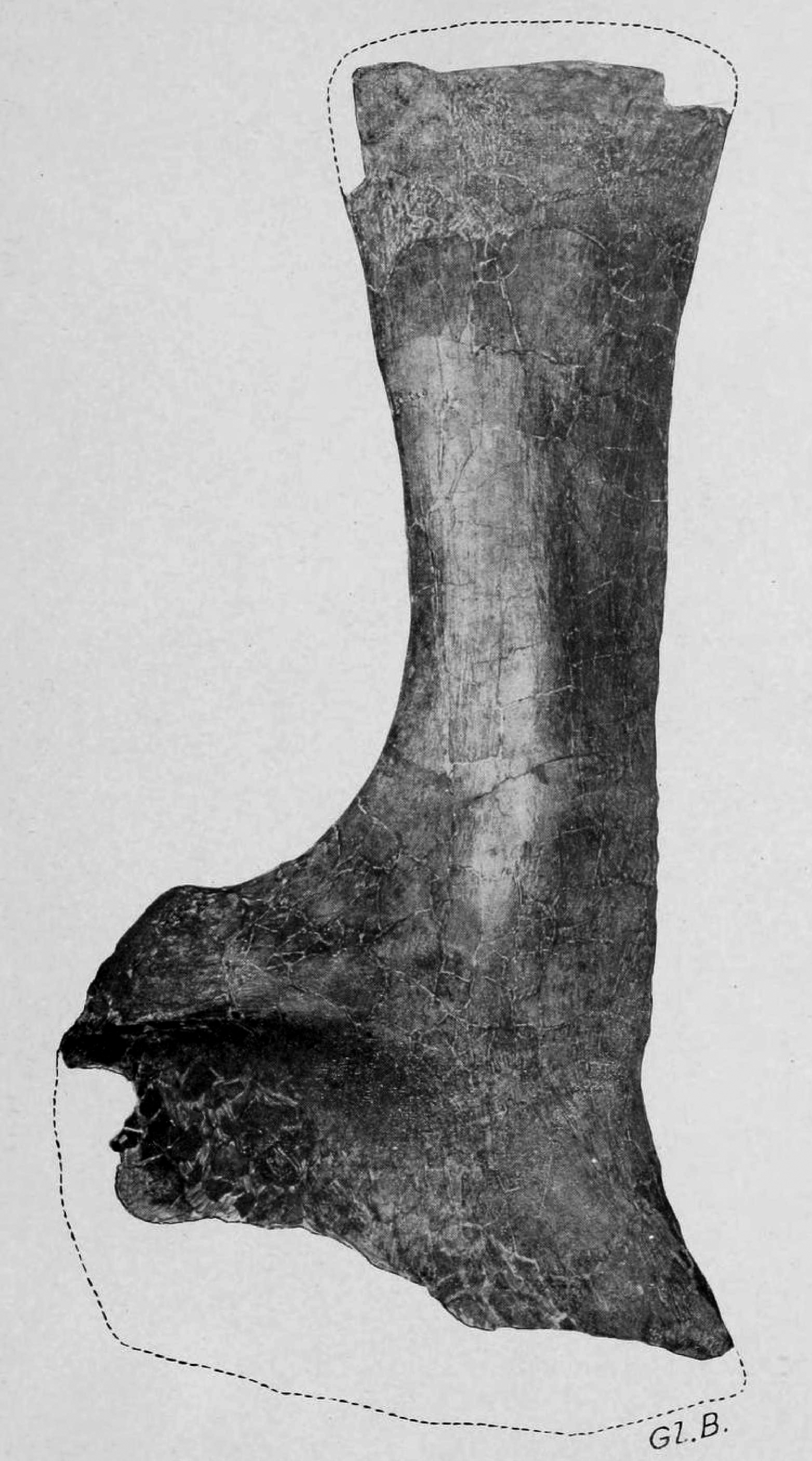 Alamosaurus sanjuanensis holotype scapula and paratype ischium.